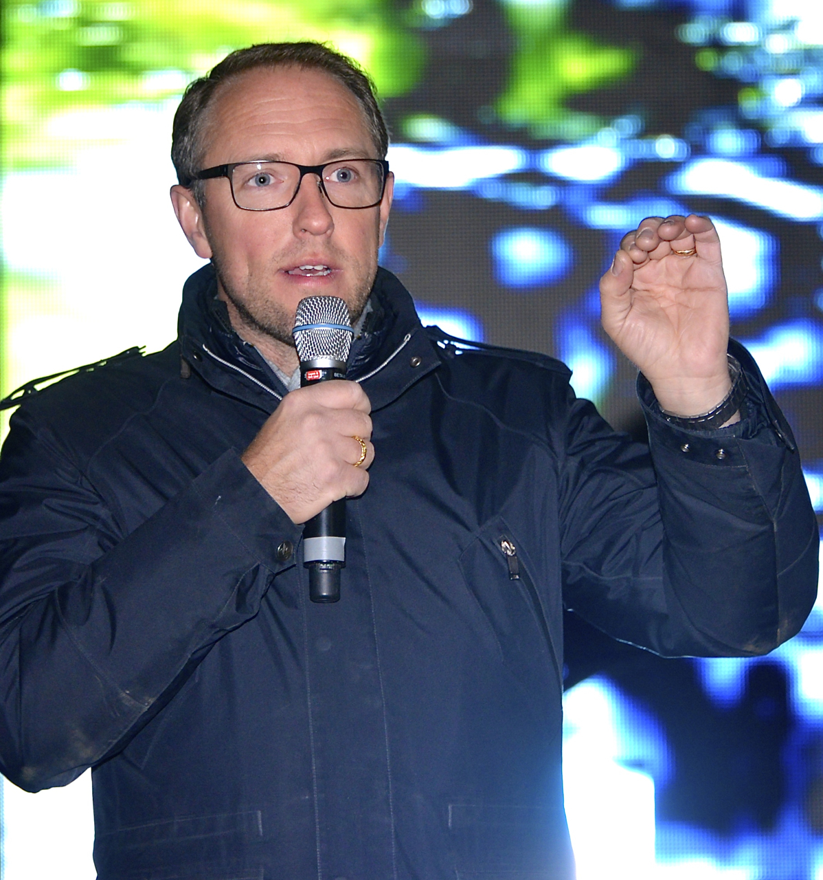 Mattias Klum speak at junction Water at the inauguration of the Northern Link in Stockholm on 30 nov 2014.